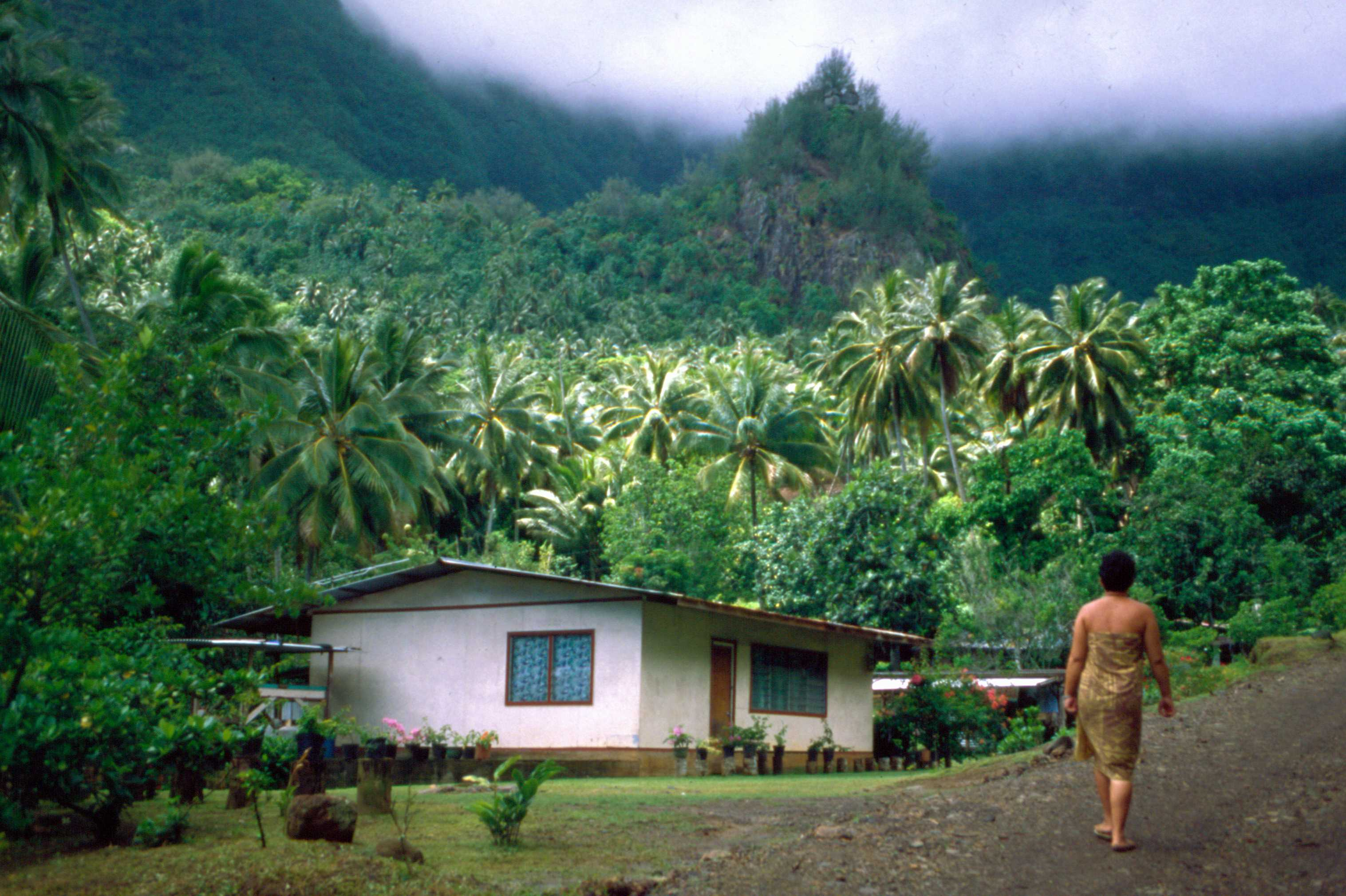 The village of Puamau on Hiva Oa, Marquesas Islands, French Polynesia